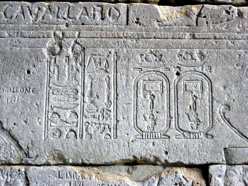 Graffiti on Temple of Dendur.